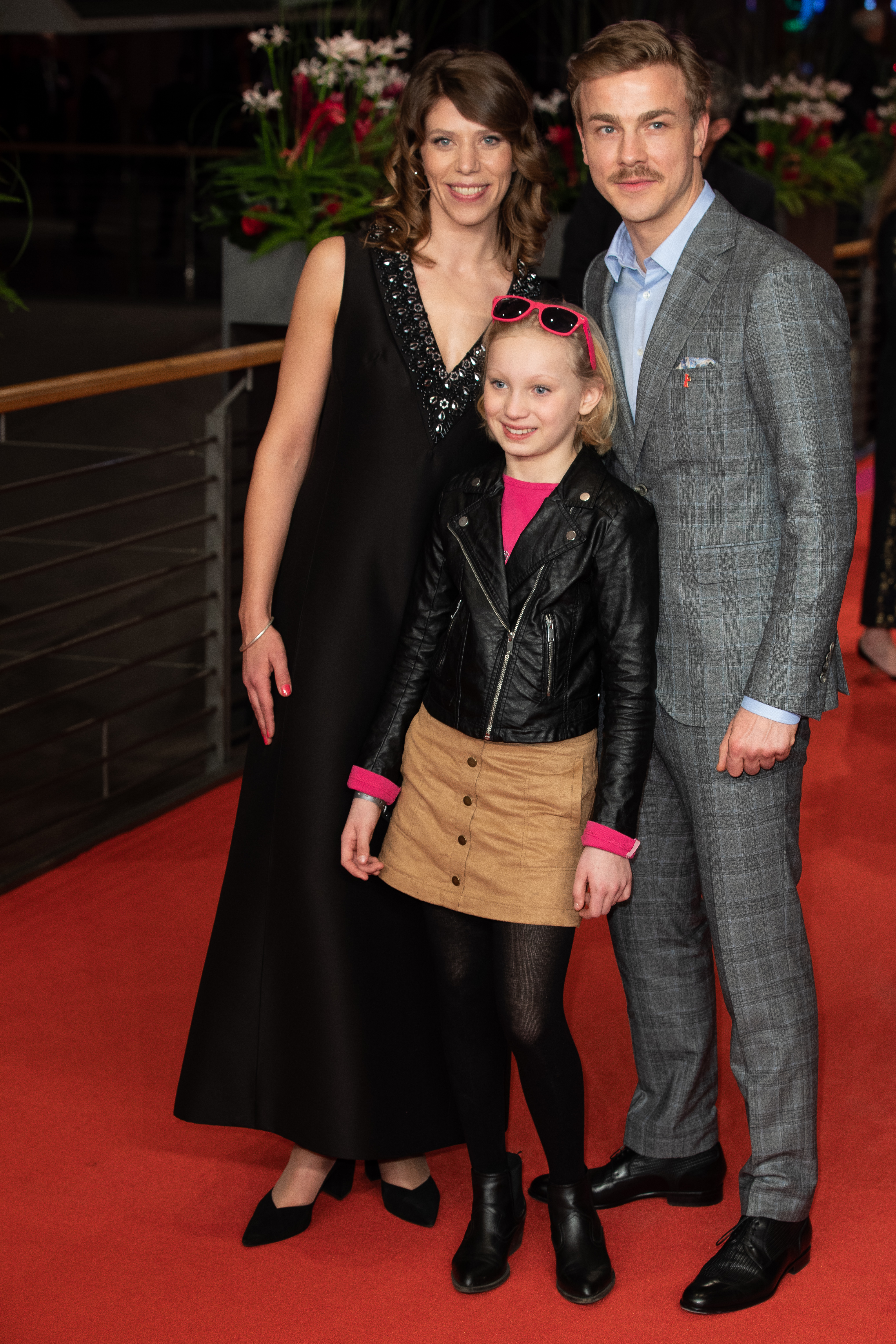 Director and actors of the film "Systemsprenger" on the red carpet of the Berlinale closing gala 2019.